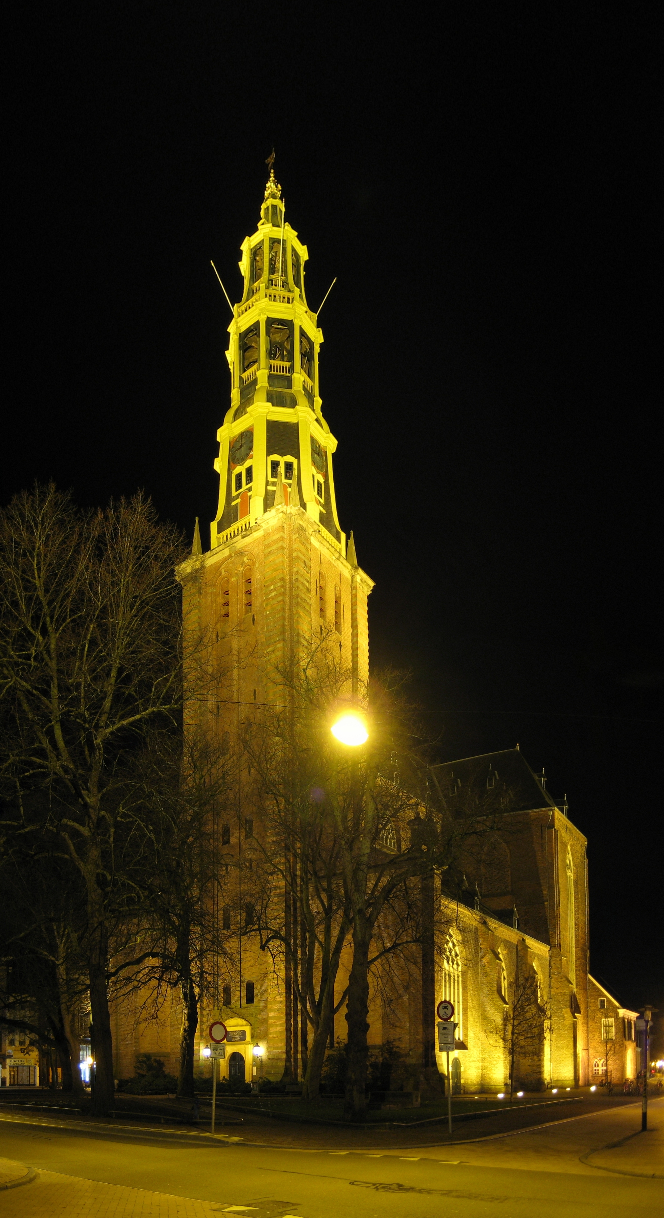 The Der Aa-church in the Dutch city of Groningen.